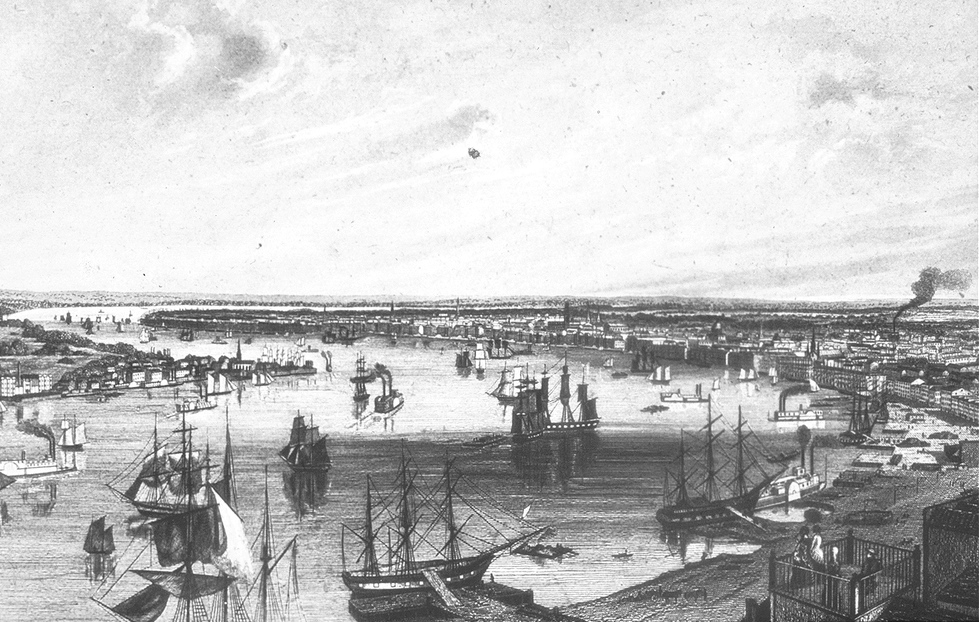 New Orleans in 1852 Artist's view, looking upriver from an elevated spot just in from the Mississippi River front in the Faubourg Marigny neighborhood below Elysian Fields. Scene shows a variety of sailing and steam ships on the Mississippi and at dock. Across the river Algiers Point is seen. The East bank "front of town" is scene, with such landmarks as the spires of St. Louis Cathedral and the dome of the old St. Charles Hotel visible. View continues upriver with the river bend at Carrollton seen in distance.